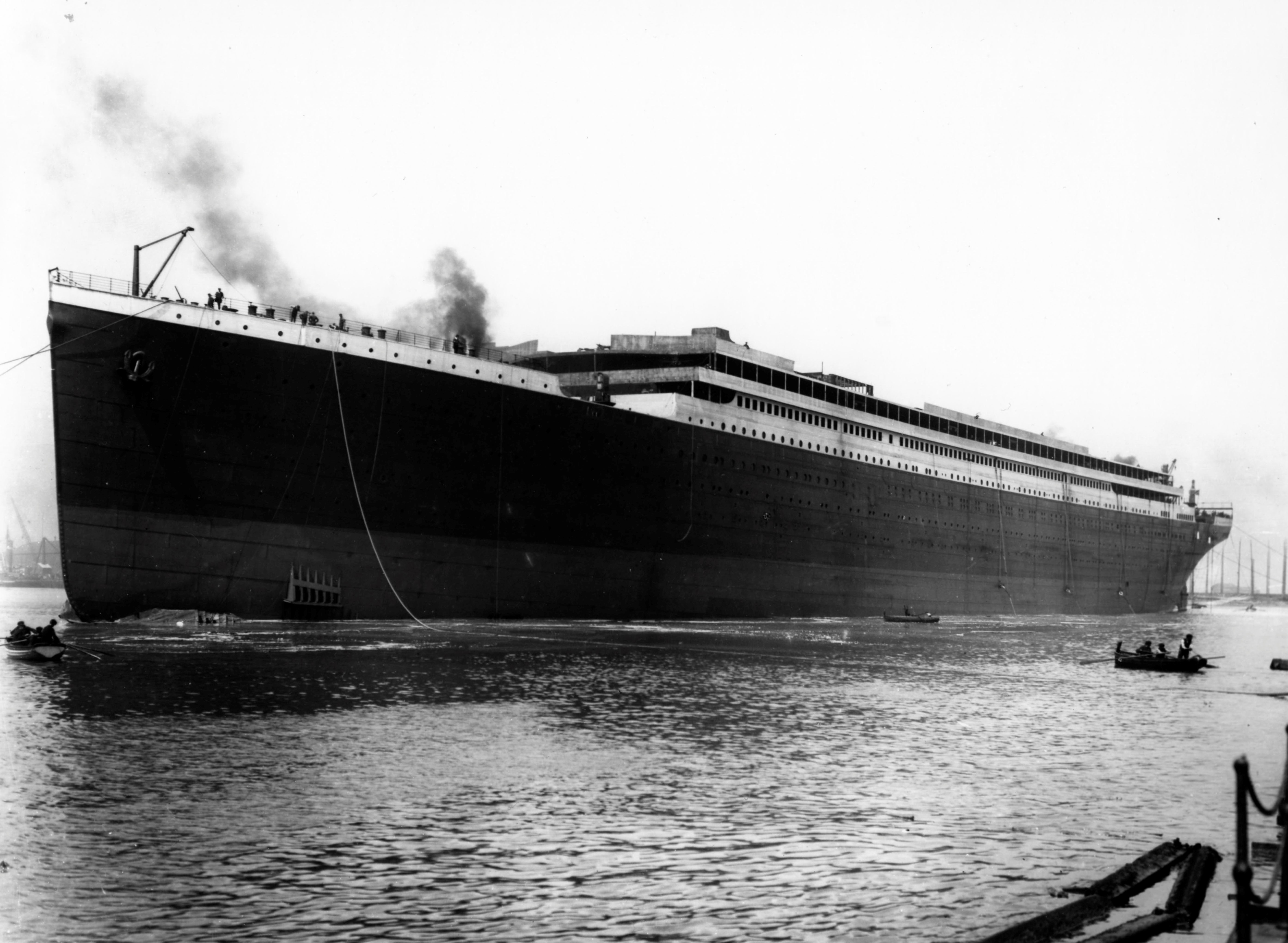 Titanic launched at Belfast